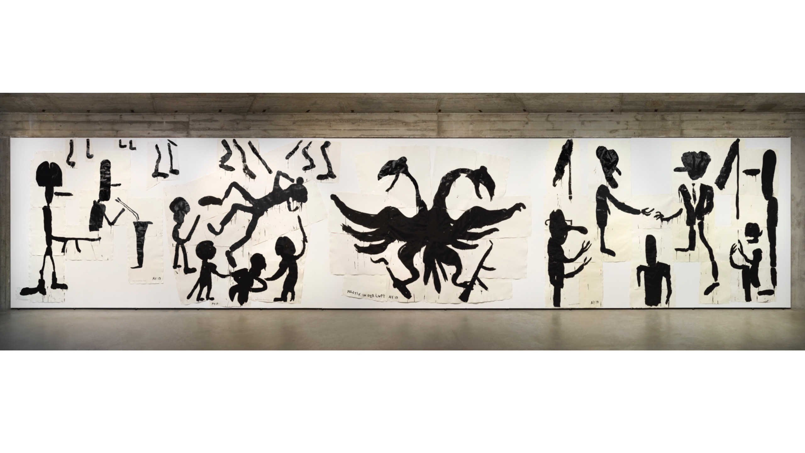 More info